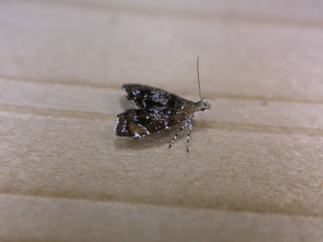 Prochoreutis sehestediana